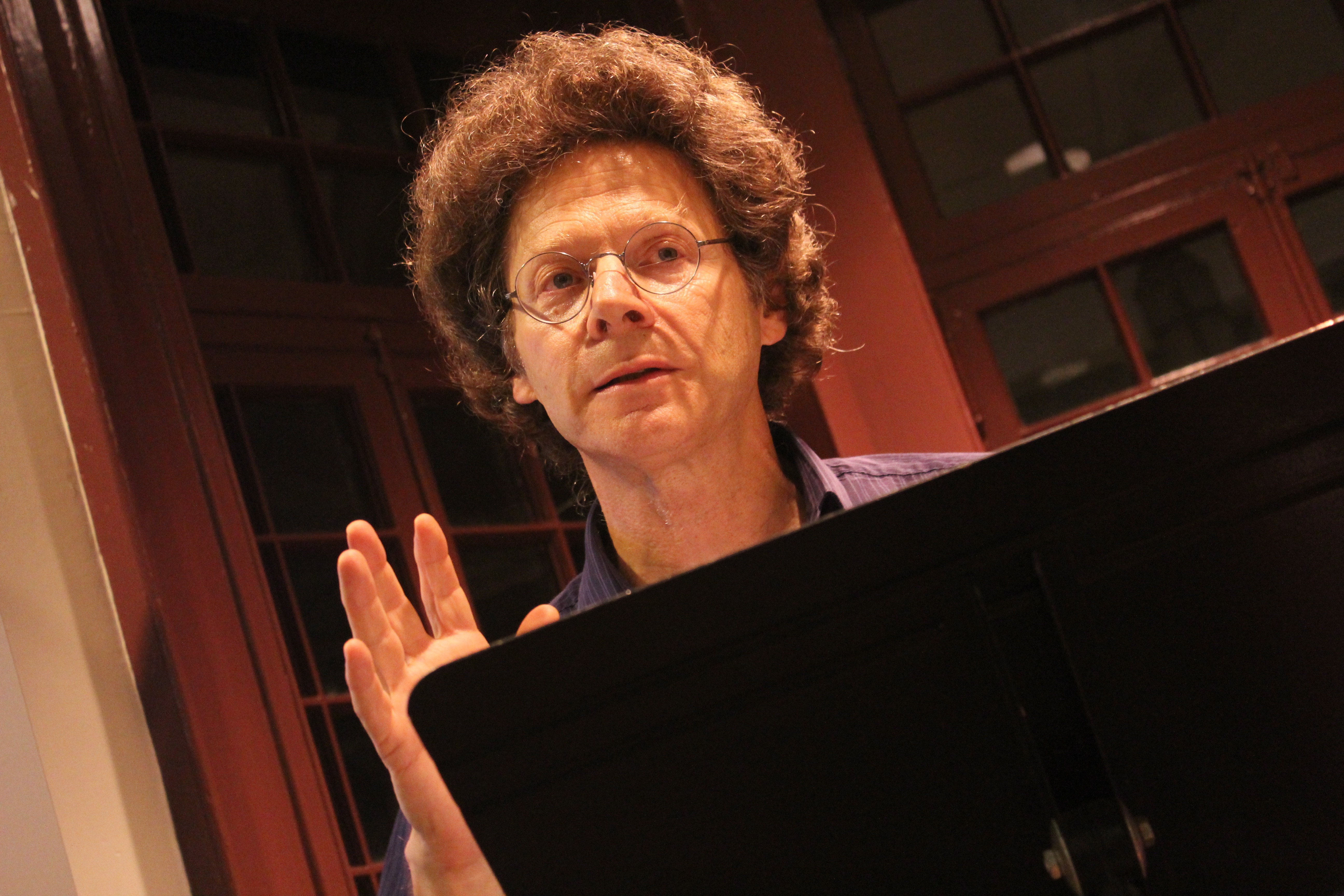 American and Israeli poet and translator Peter Cole speaks at Kelly Writers House in Philadelphia.